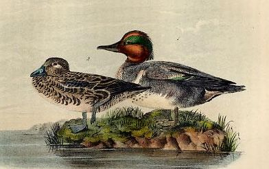 Anas (crecca) carolinensis